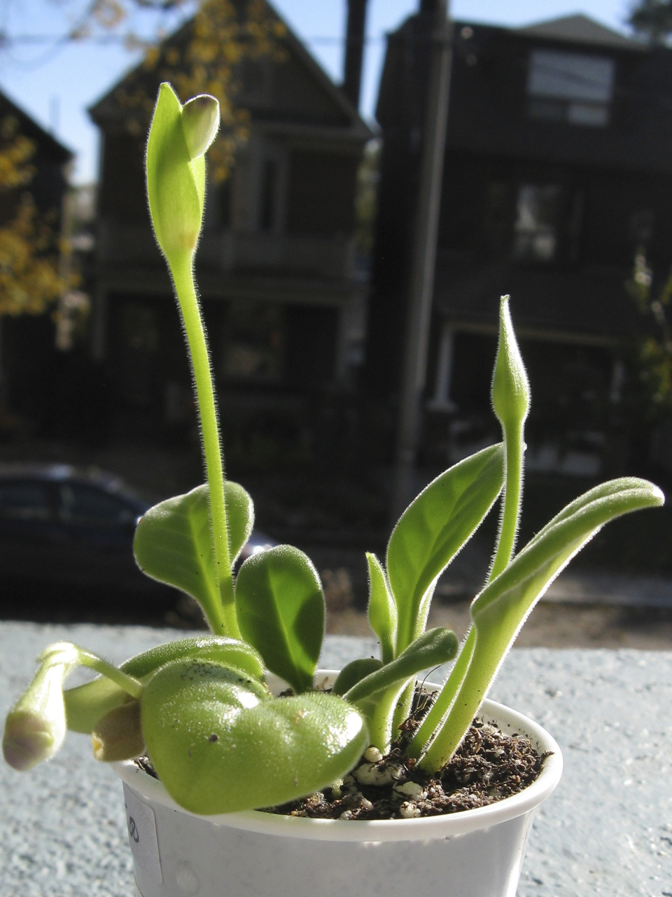 Young plant